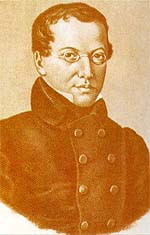 Gregor Silitsch Karelin (1801—1872), Russian scientist and explorer